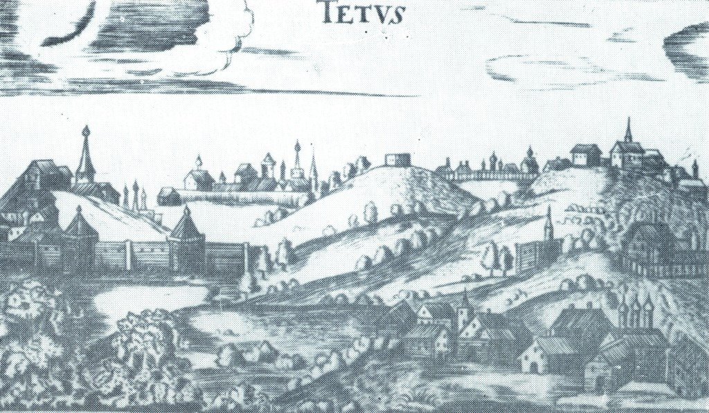 Tetyushi by Olearius